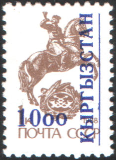 Stamp of Kyrgyzstan, 1993